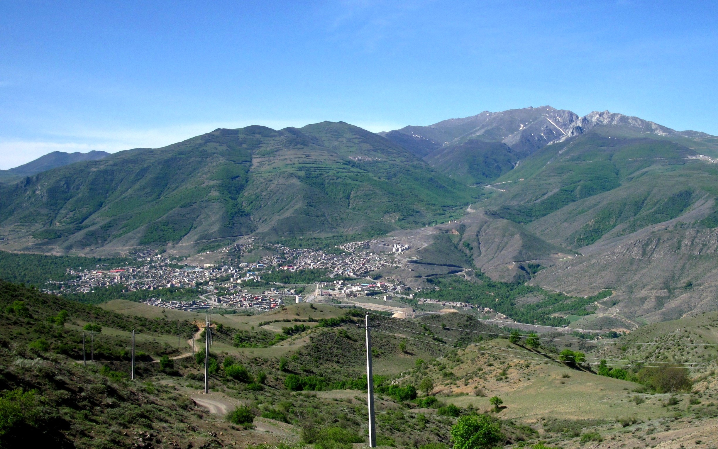 For Kaleybar wiki page.